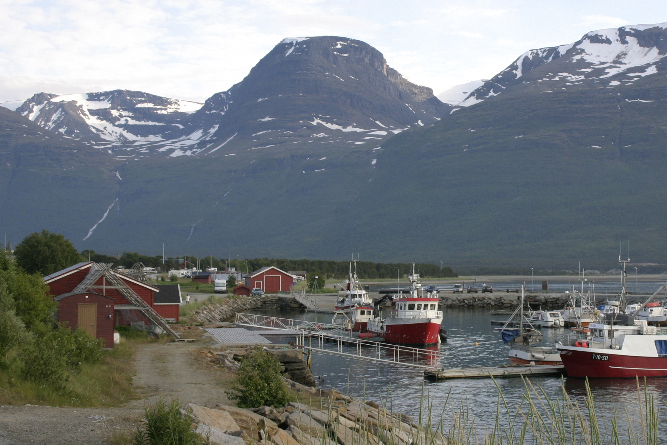 The harbor of Skibotn, Norway with the camping area in the background. The photo was taken in the evening of July 13th, 2008.